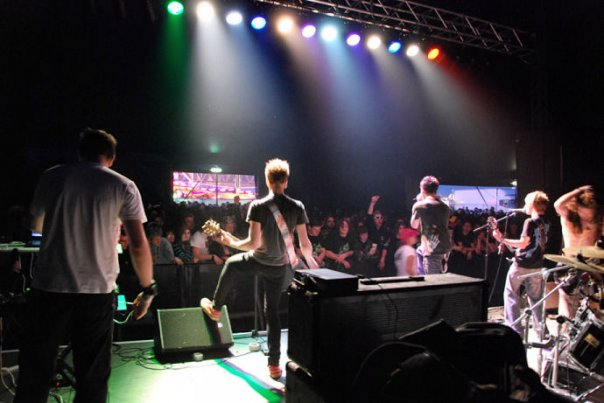 Image of trance metal band Silent Descent live at Download Festival 2009. I own this photograph and took it myself.